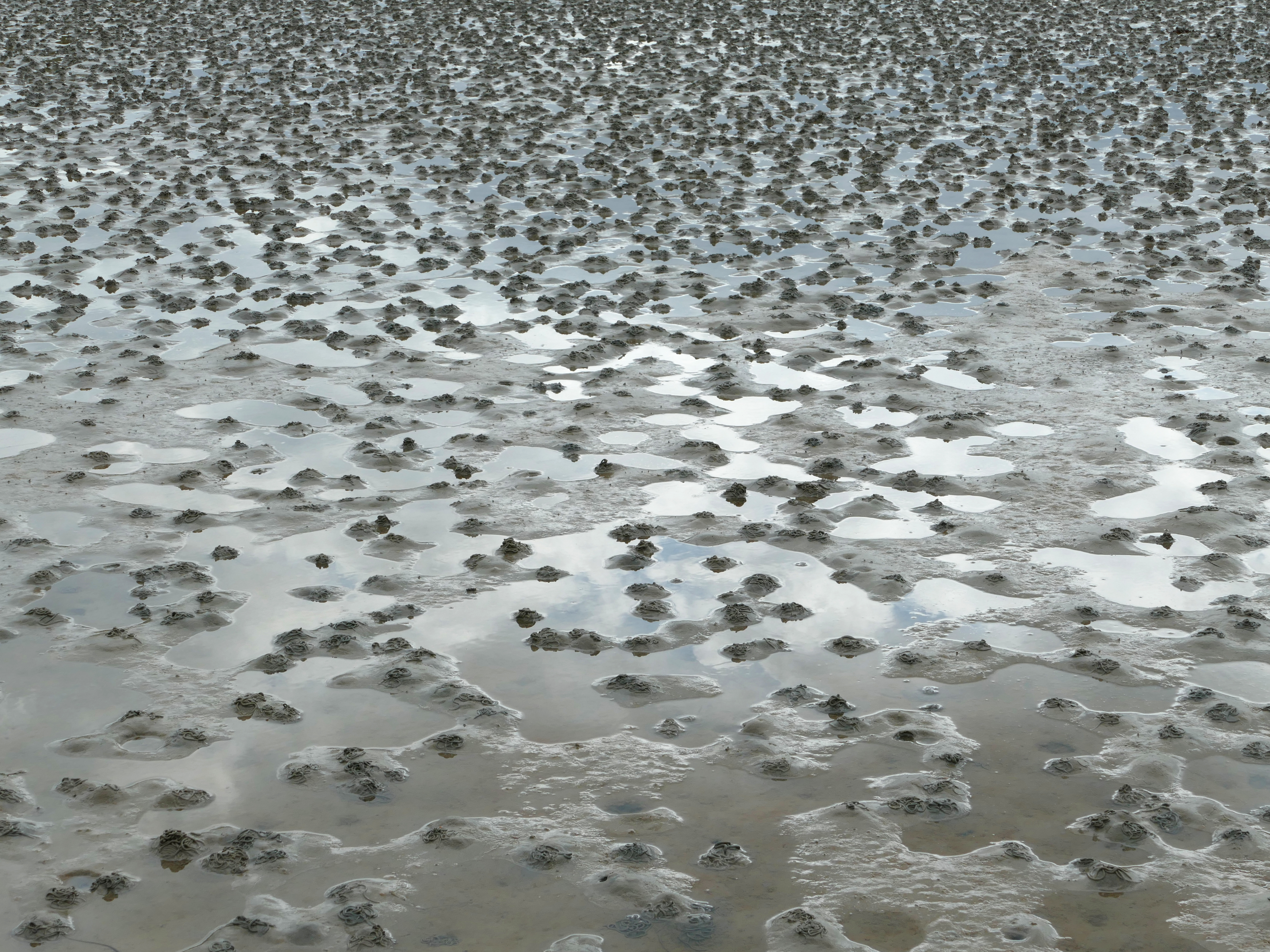 Lugworm (Arenicola marina) casts on the mudflats in Gullmarsvik, Lysekil, Sweden.